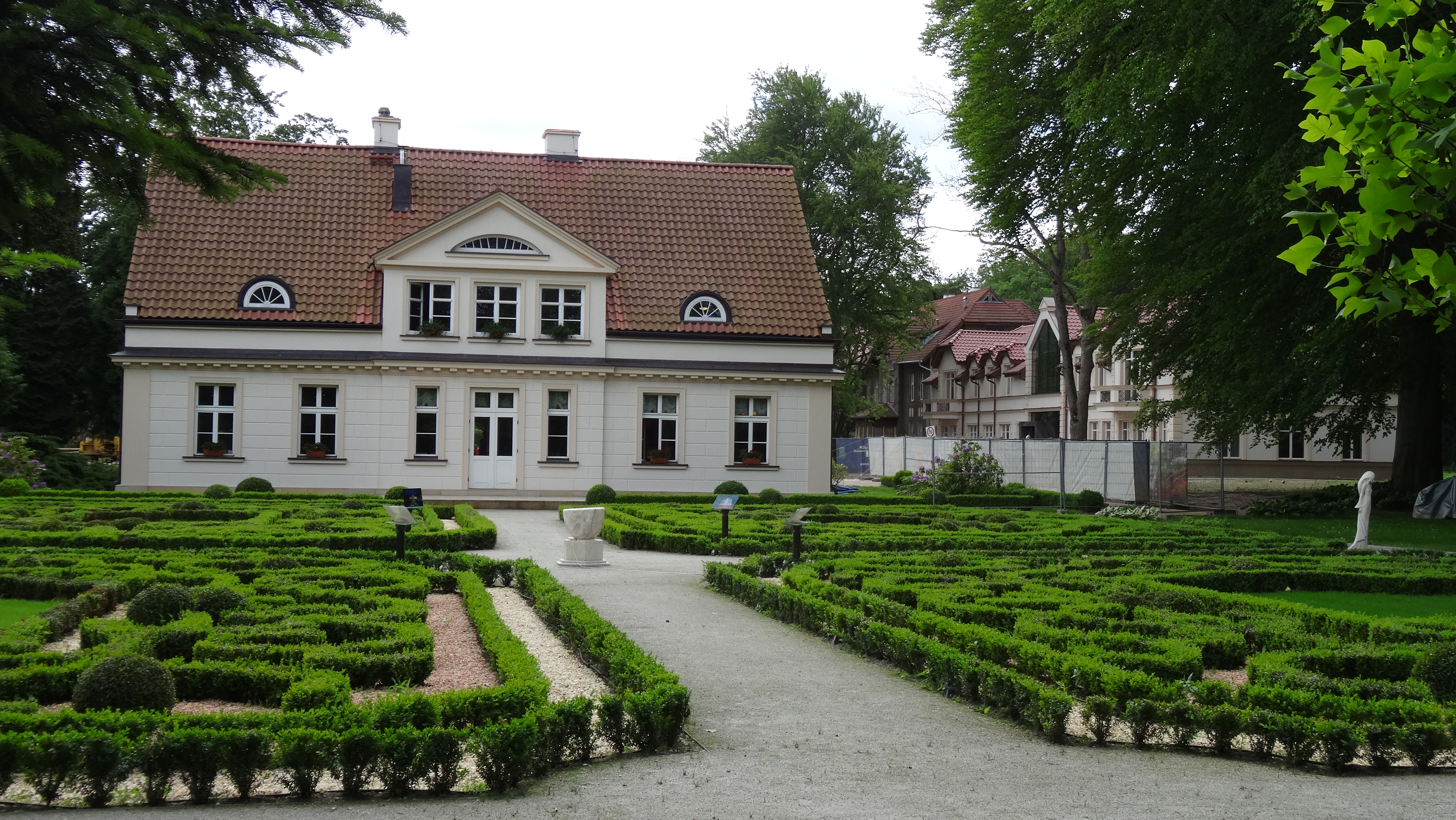 Gdansk, Oliwa, Opacka Str. Saltzmann's Manor House